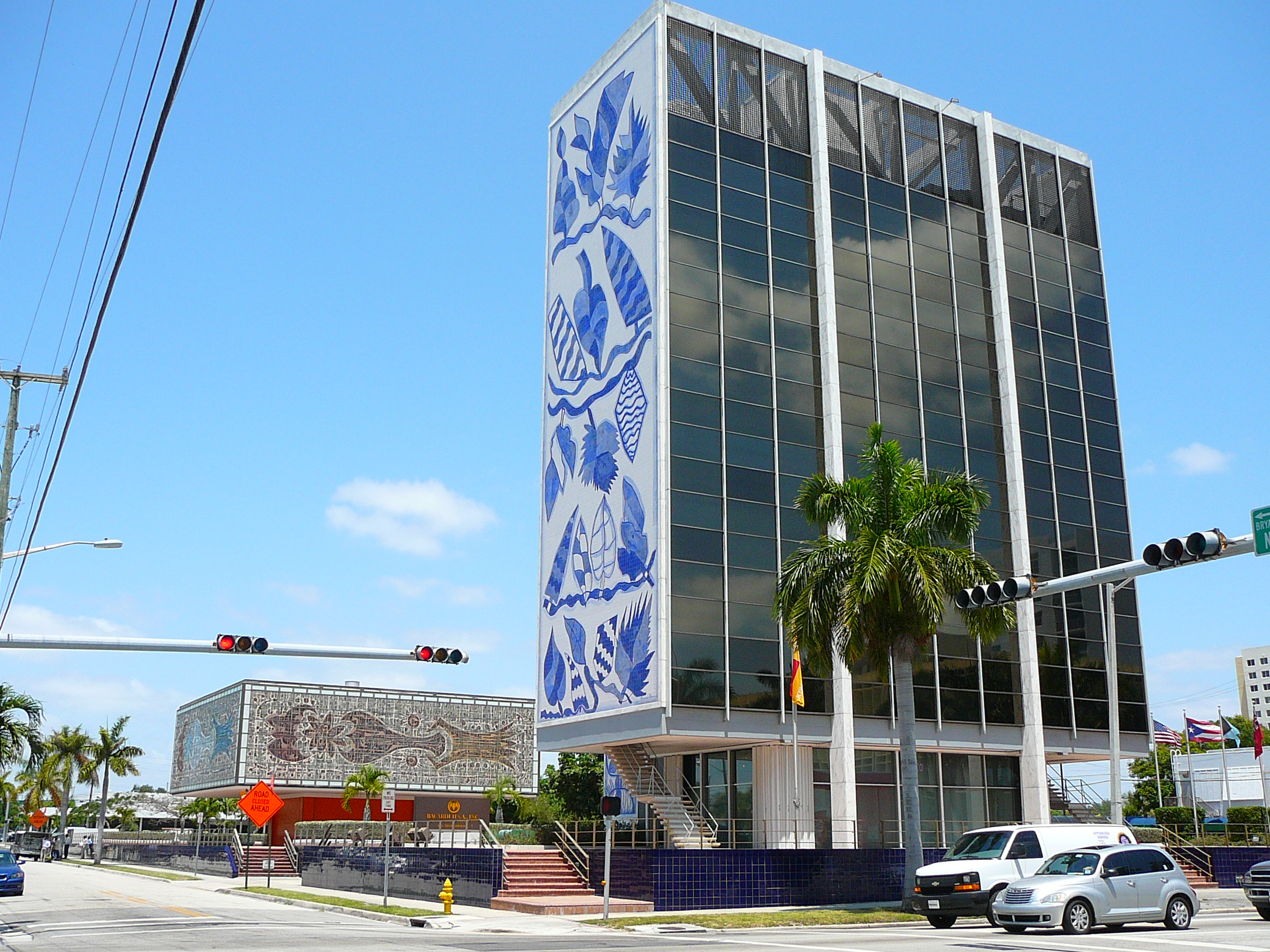 The Bacardi building in Midtown Miami from Biscayne Boulevard 5/16/2008